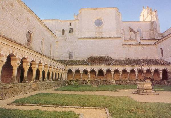 San Pedro de Cardeña abbey, Cloister of the Martyrs